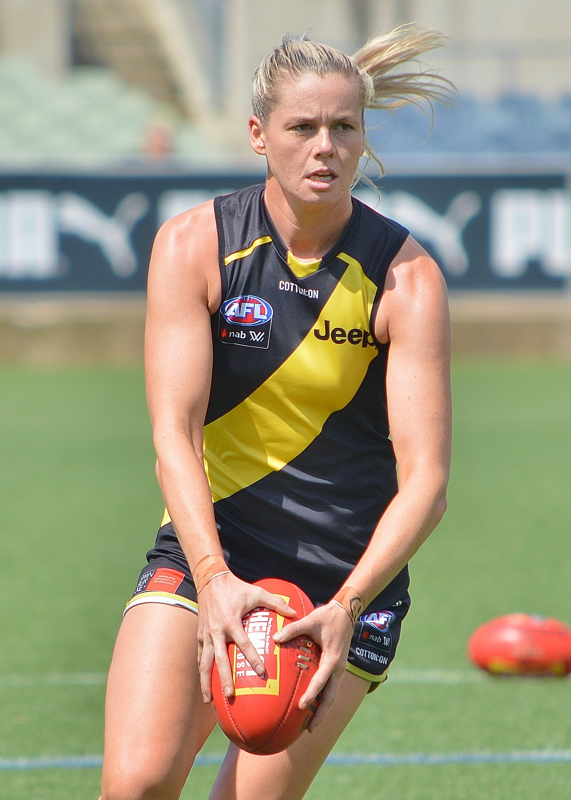 Katie Brennan with Richmond during the round 3, 2020 AFL Women's match against North Melbourne at Ikon Park.